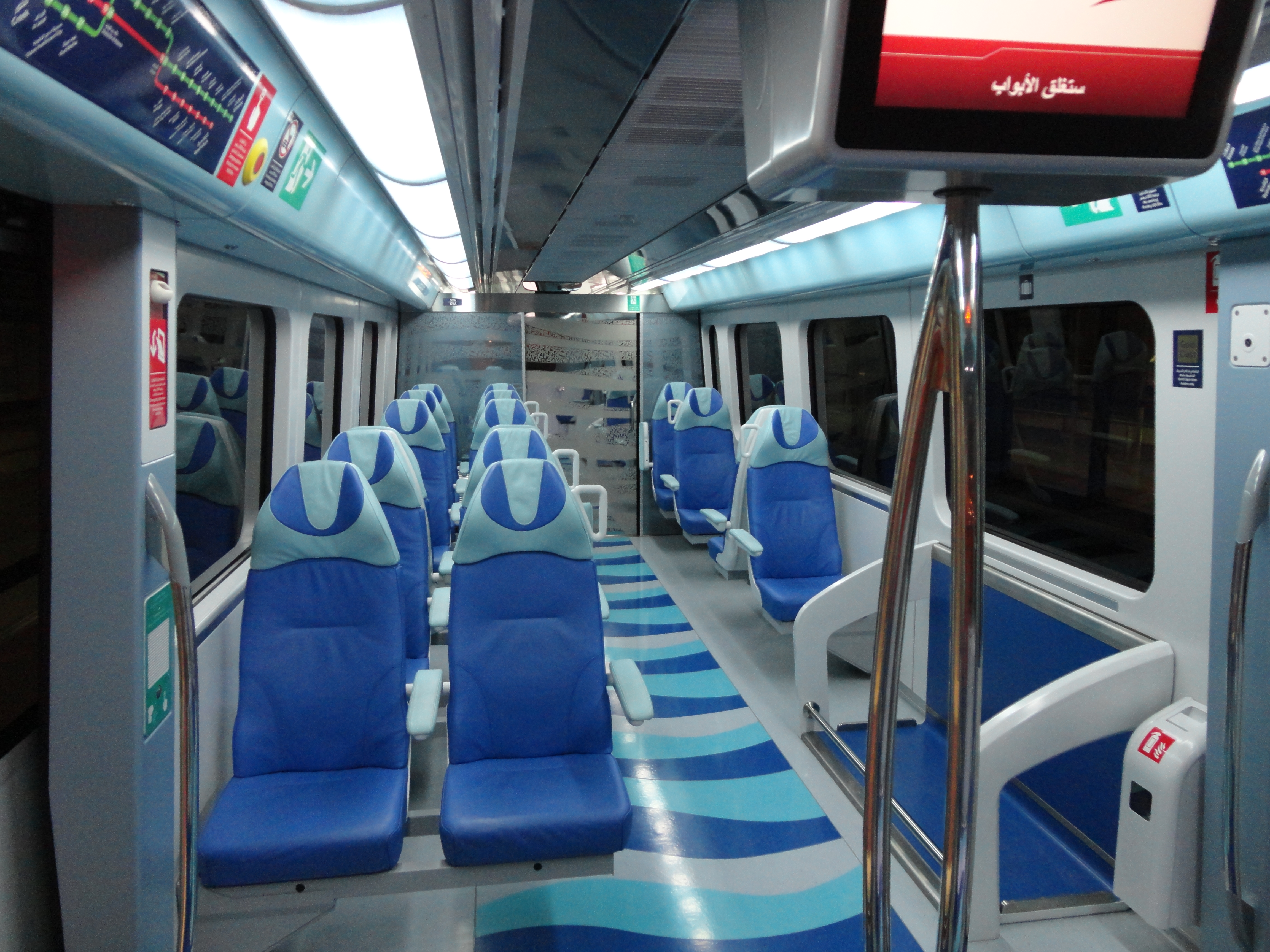 Dubai Metro Gold Section. the price of this section is 2 time more than the economy section